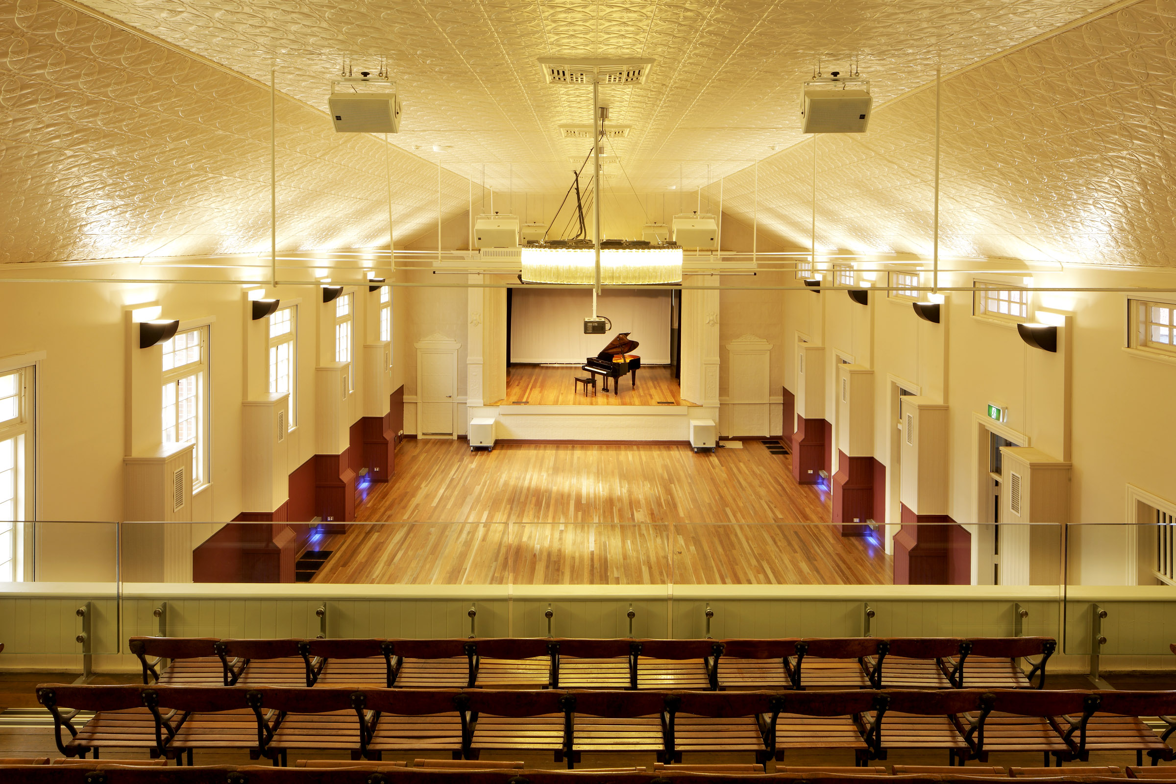 Sandgate Town Hall holds 120 people standing or 100 people banquet style.